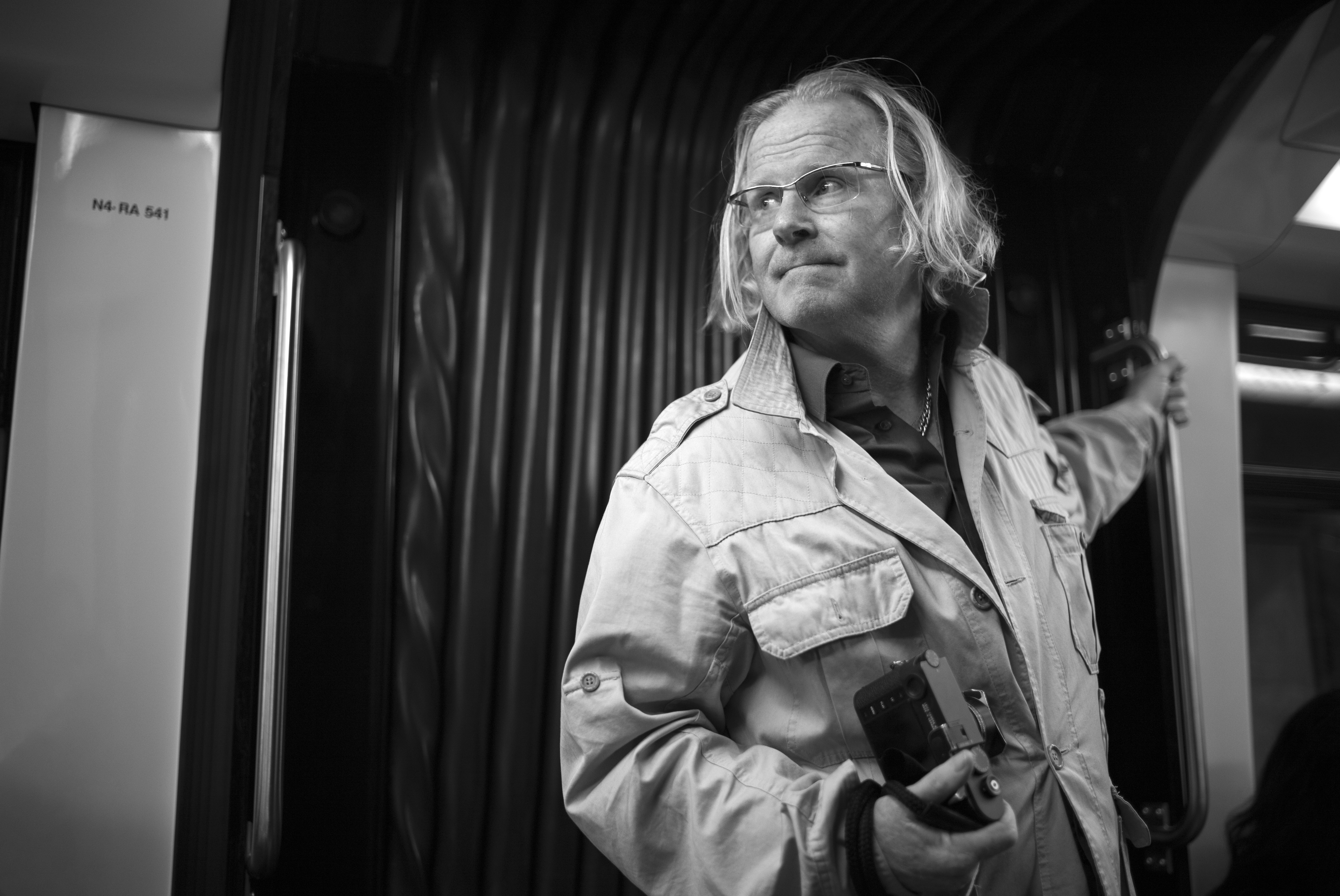 Photographer Peter Turnley in Paris. Photographer: Christopher Michel